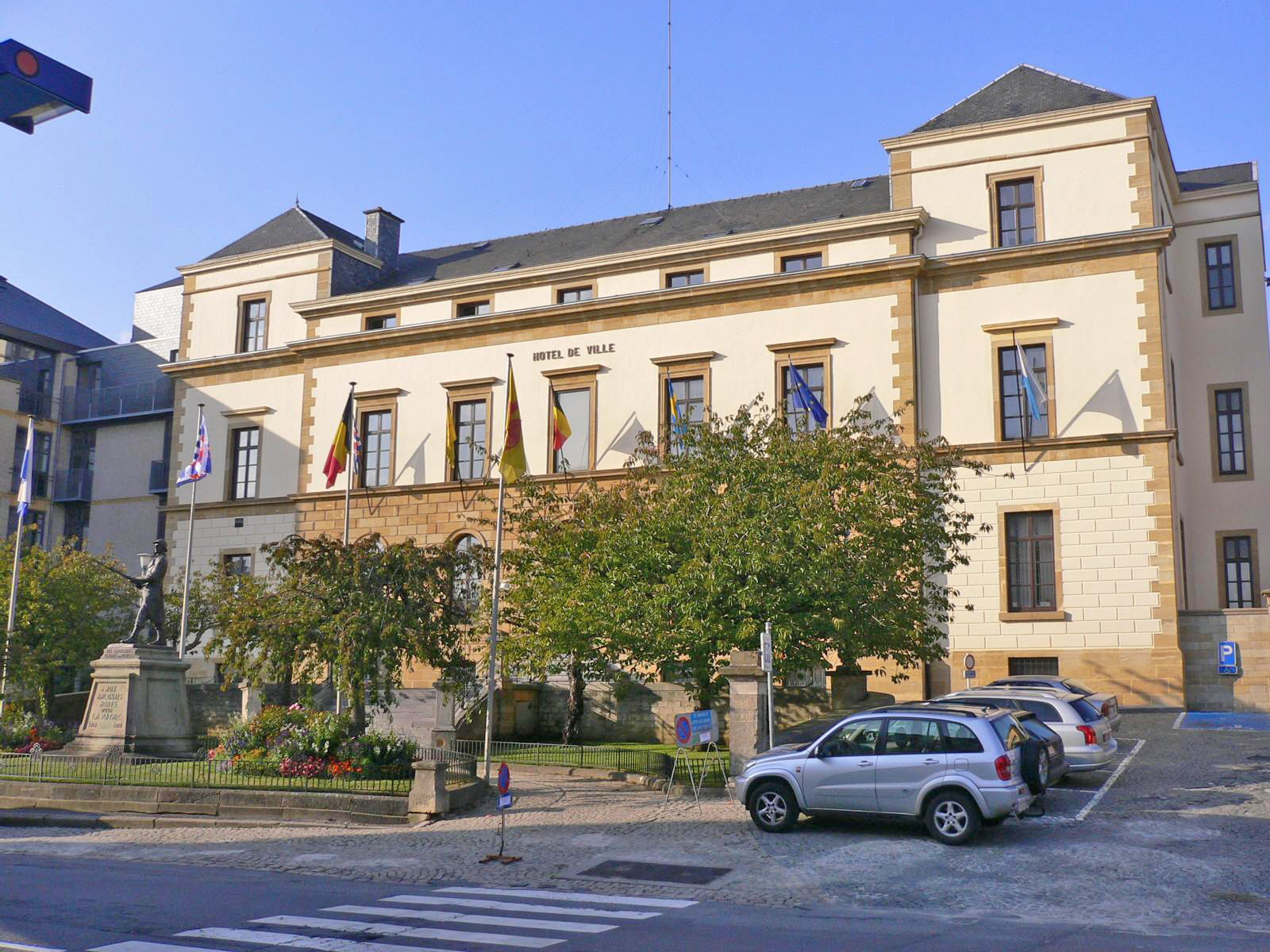 Arlon, Belgium: the town hall.